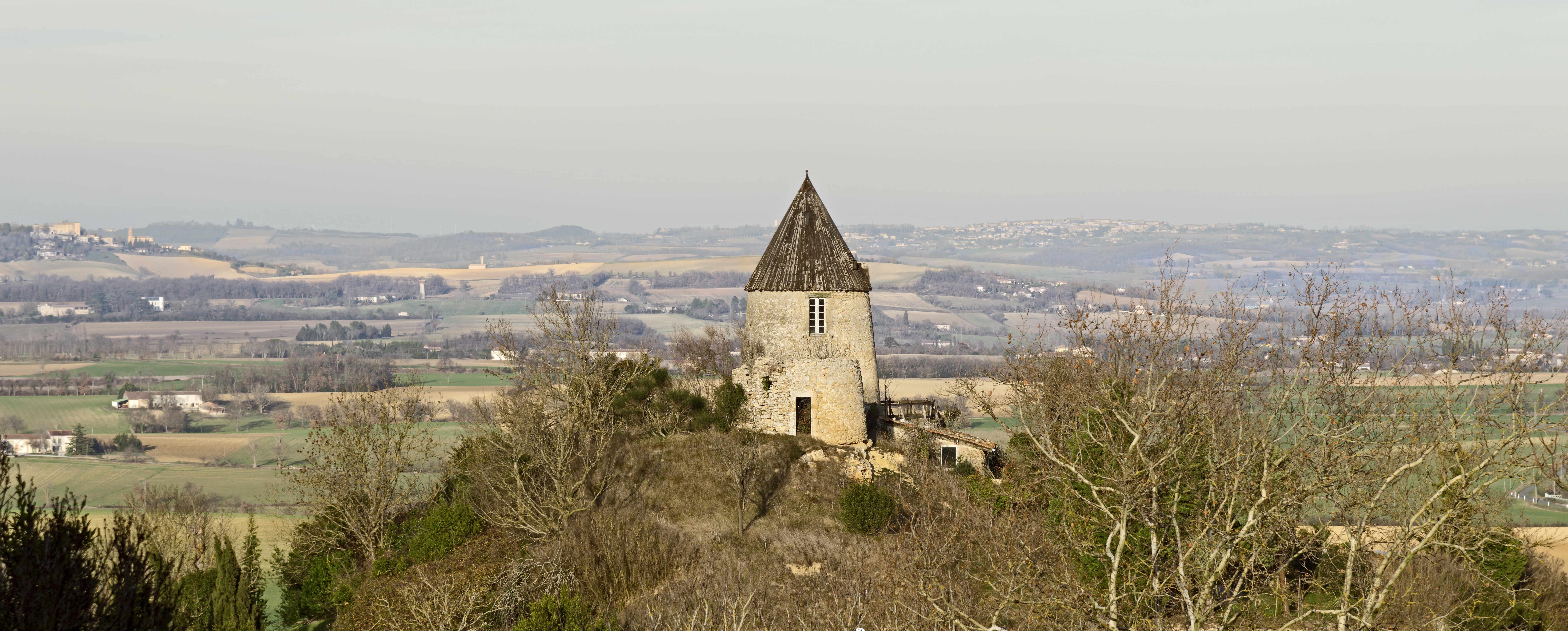 Saint-Félix-Lauragais. The mound of the three mills.